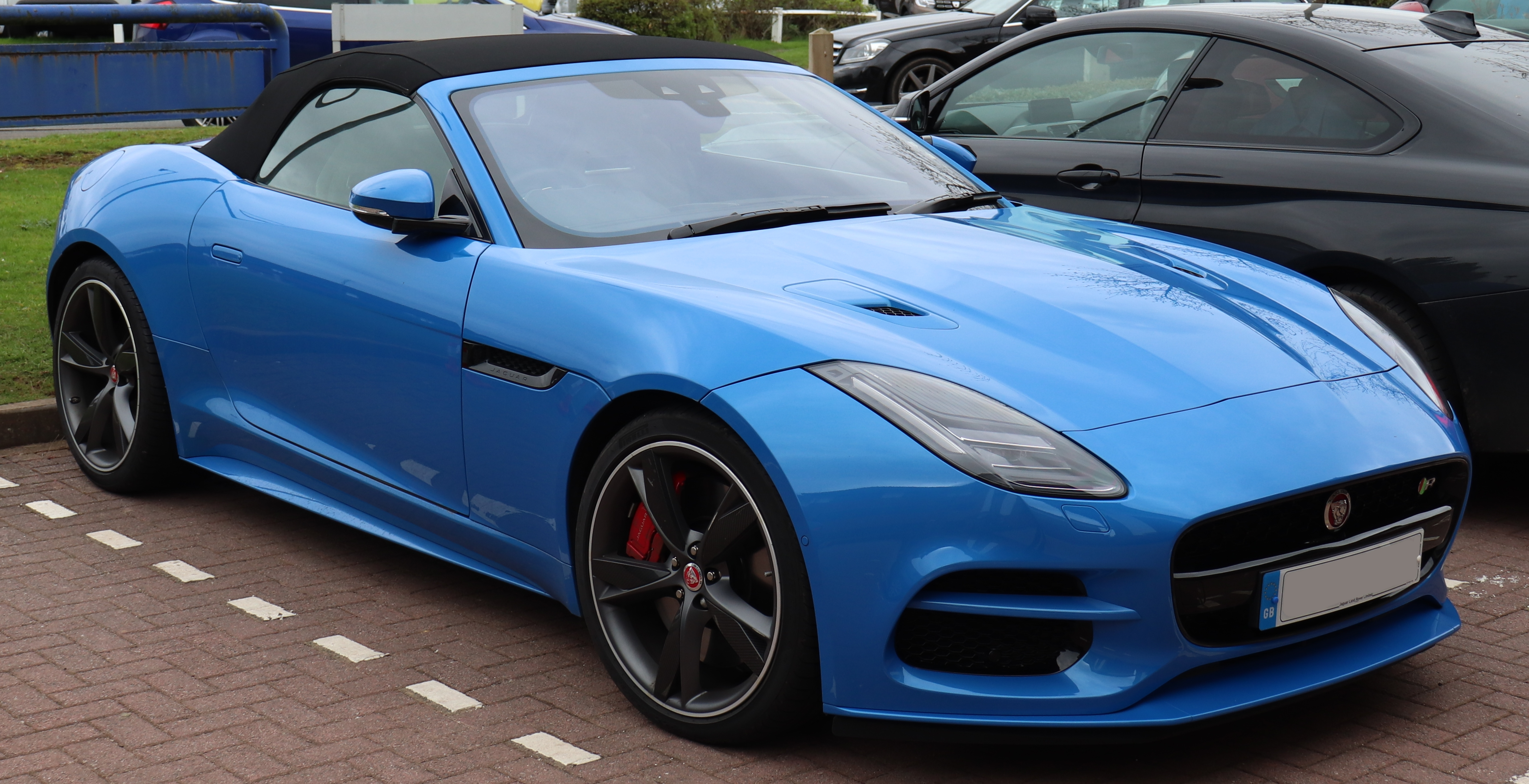 2017 Jaguar F-Type Convertible V8 R AWD Automatic 5.0 Front Taken in Leamington Spa